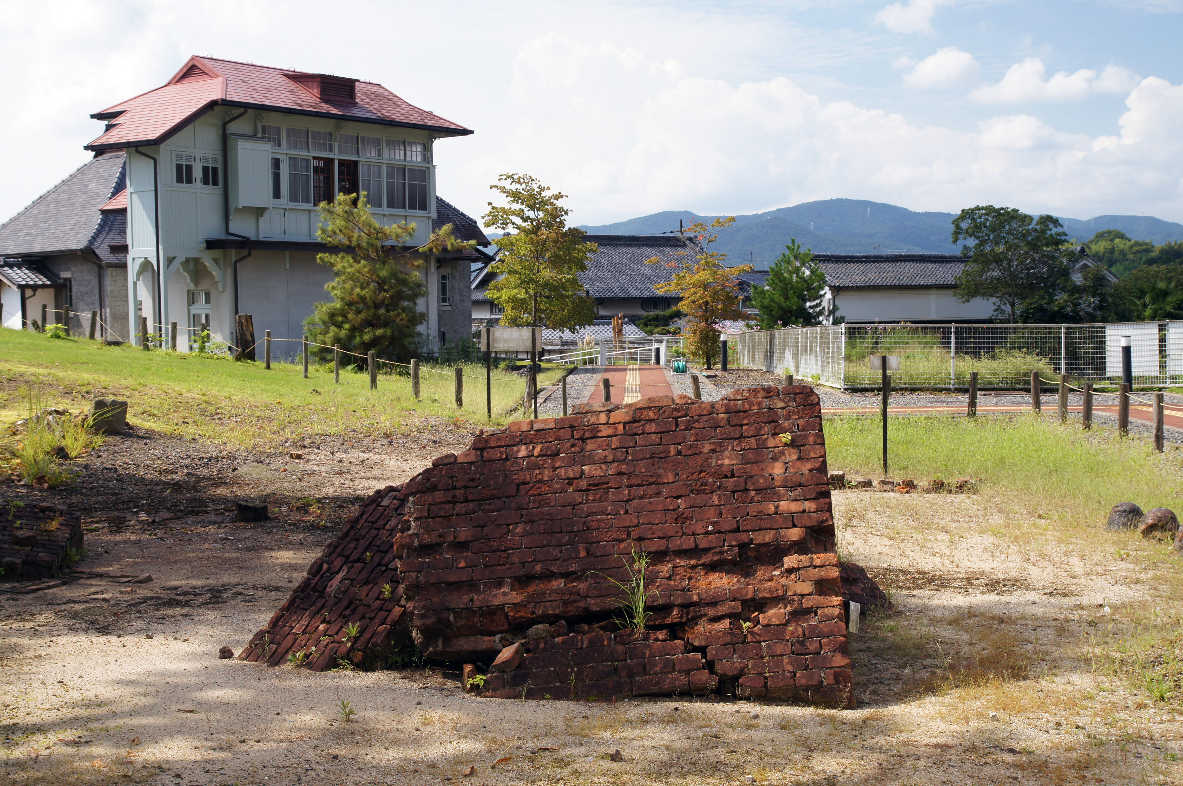 Kyodokan Museum (Folk Museum of Kawanishi) in Kawanishi, Hyogo prefecture, Japan.